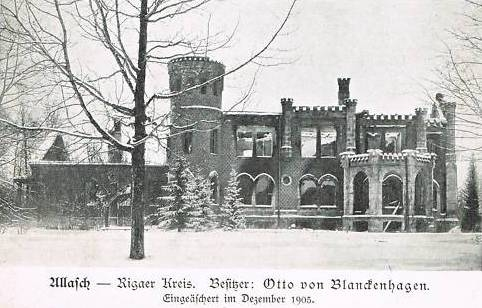 the deserted manor house of Allaži, Latvia 1905